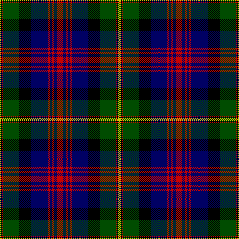 Logan or MacLennan tartan, as recorded by James Logan in 1831. Modern thread count: Y4 Bk2 R2 G32 Bk24 B32 R4 B4 R4 B6 R12.